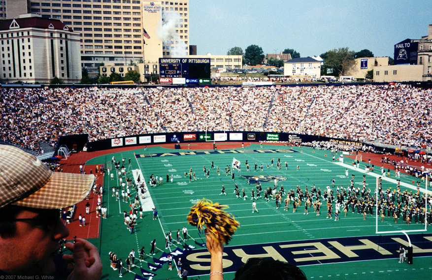 Pitt Stadium at the University of Pittsburgh in 1998. photo by Robert Dorsey/edited by Michael G White